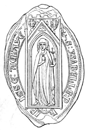 Seal of Isabella of Villehardouin